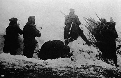 Serbian retreat through Albania in 1915.